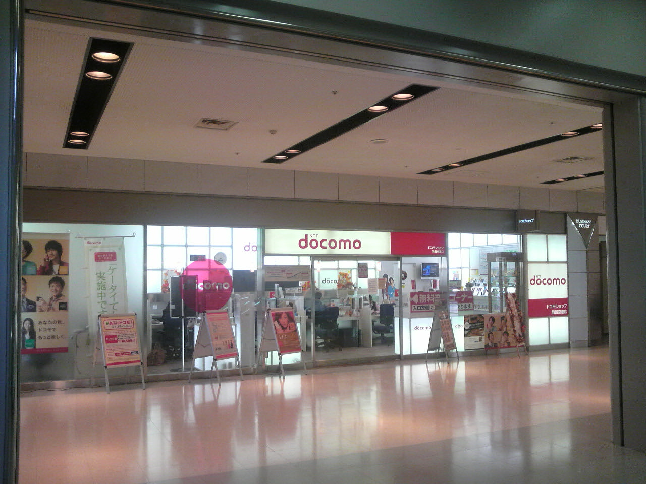 Docomo Dhop HANEDA Air Port